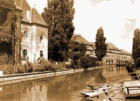 Mlynsky Nahon Košice